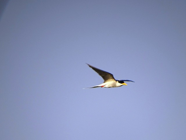 River Tern Sterna aurantia Purle Lake Shimogga